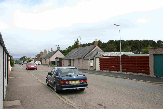 Luthermuir Main Street. Looking North along Main Street Luthermiur. Caldhame Plantation visible over houses on right